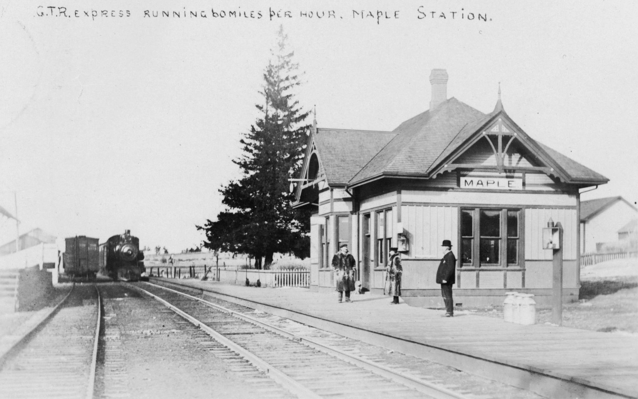 Photo of the Grand Trunk station in Maple, Ontario.